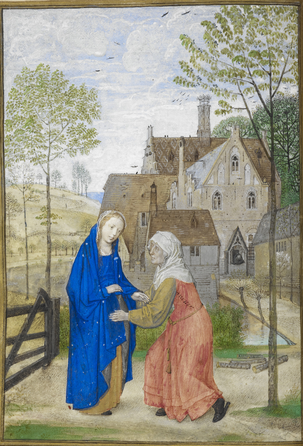 Office of Lauds. The Visitation. Mary and Elizabeth in the garden of a country house